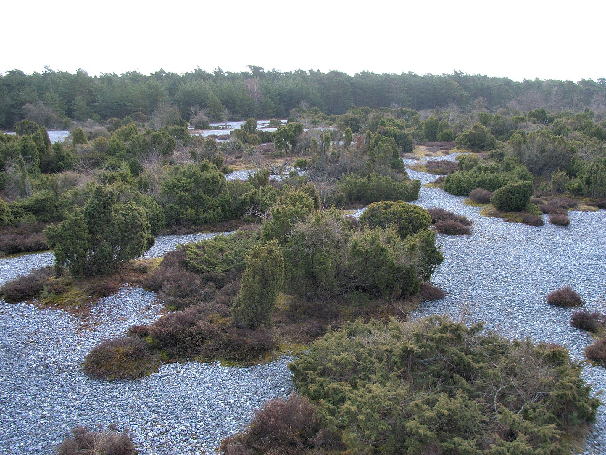 Flintstone fields near Neu Mukran (island Rügen)